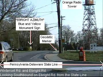 Annotated photo of area around Ebright Azimuth, Delaware